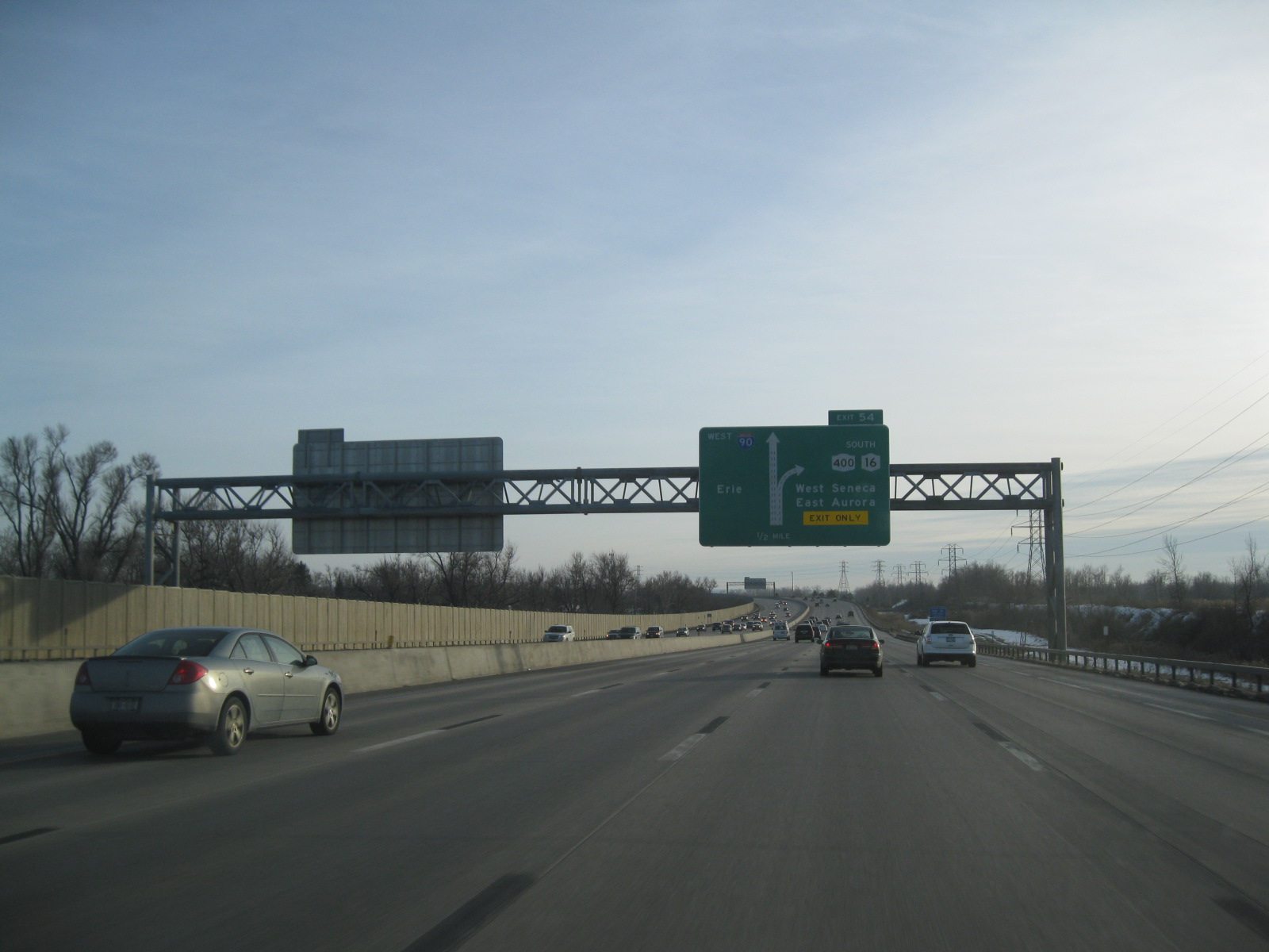 Approaching exit 54 (New York State Route 400) on Interstate 90 (the New York State Thruway) westbound in West Seneca, New York.